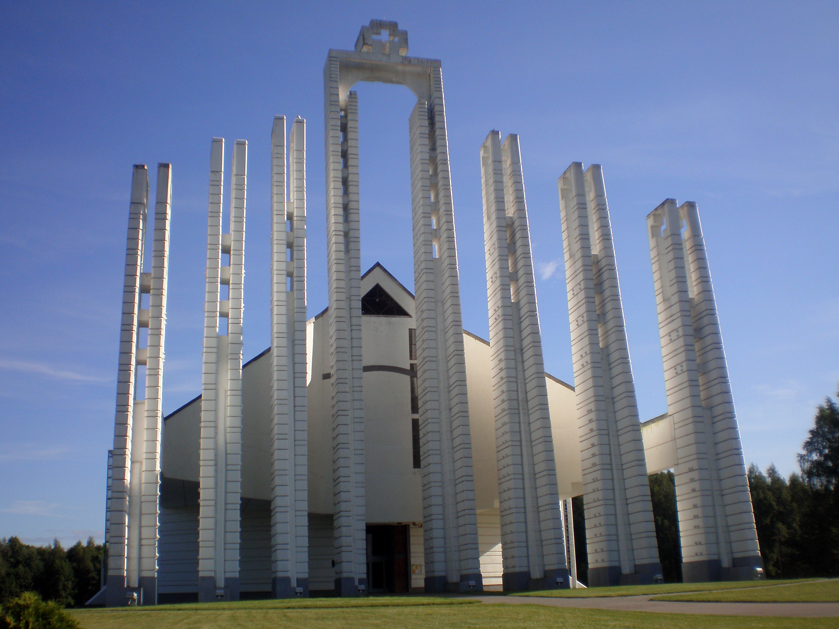 The church of Elektrėnai